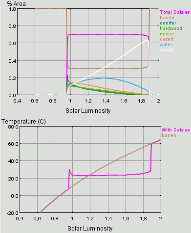 Outputs of a Daisyworld climate simulation. The used generator is from the freely useable online, java based environment simulator "swingdaisyball" from Ginger Booth ( a teacher at the math department at Yale. Parameters were tuned to have a non small amount of alternate daisy landscapes and a medium amount of iterations.